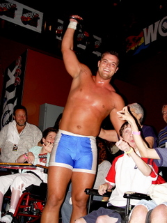 Harry Smith winning his brand new FCW Belt in Tampa Florida PHOTO BY ROB BEUKEMA